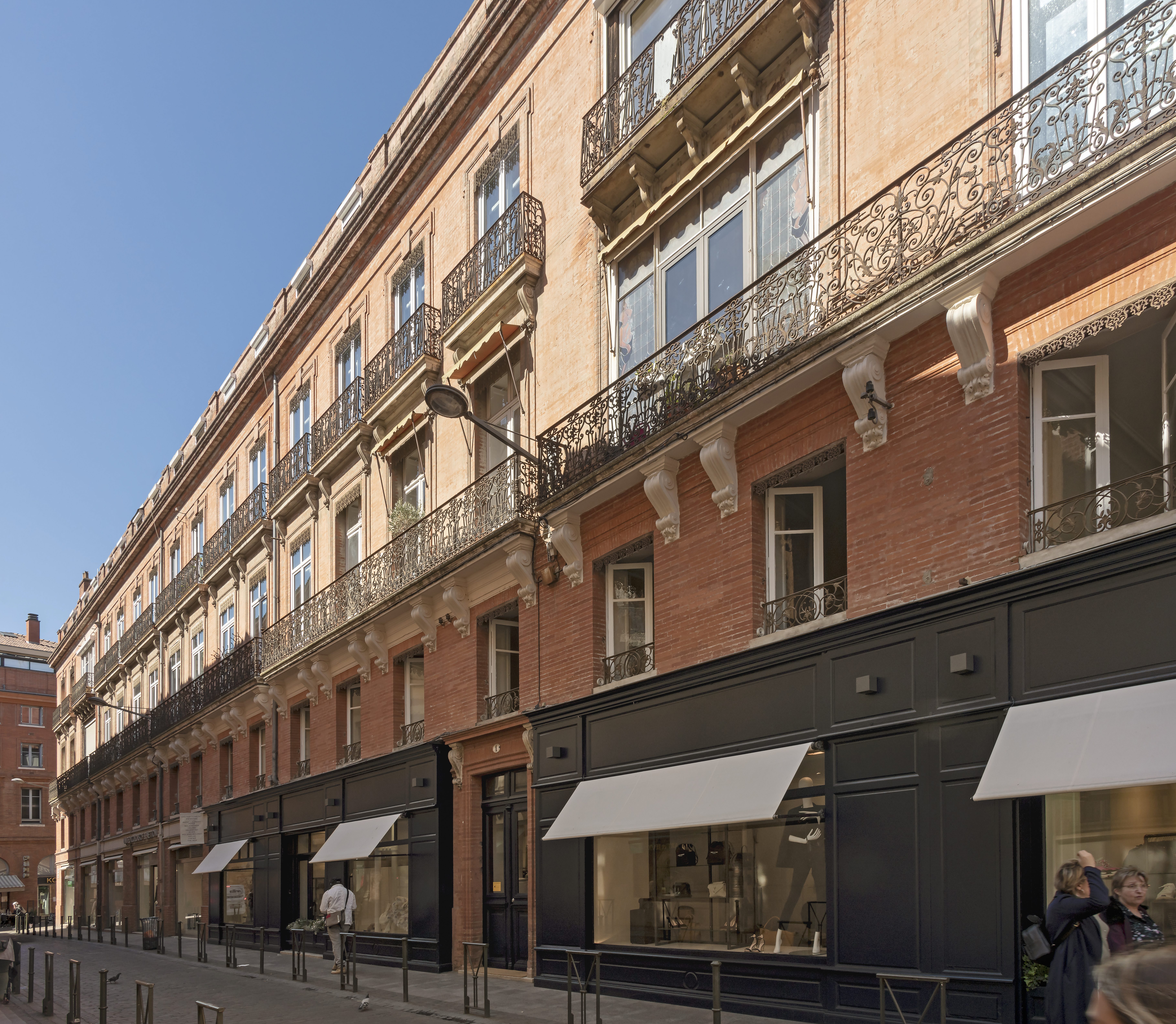 Facade of the No.1 building (1824-1834), designed by Jacques-Pascal Virebent.